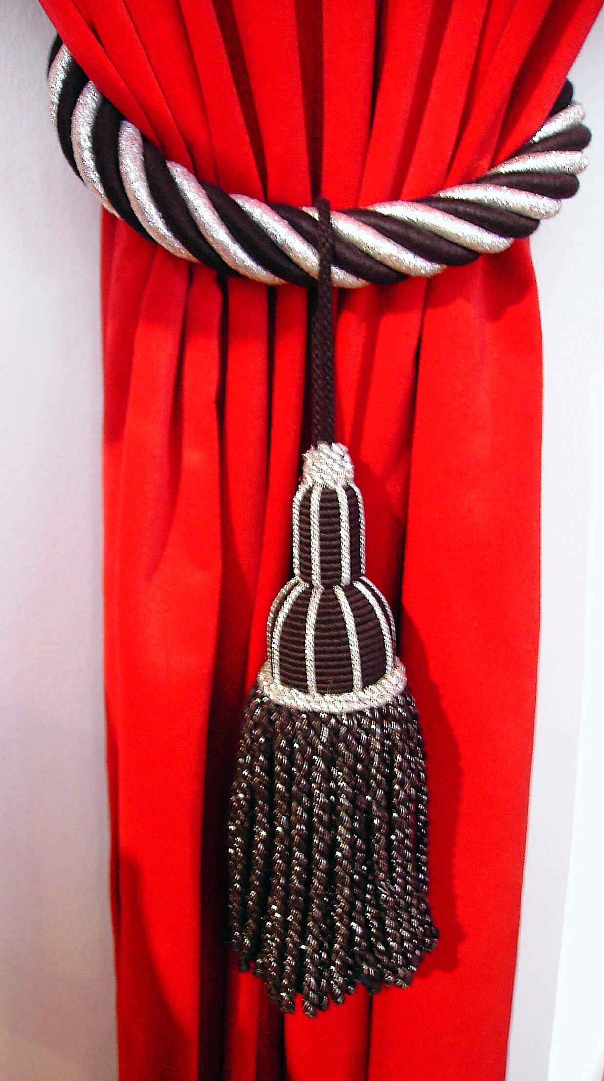 black and white tassel on red drapery - Quaste als Dekoration im Peugeot-Salon Berlin